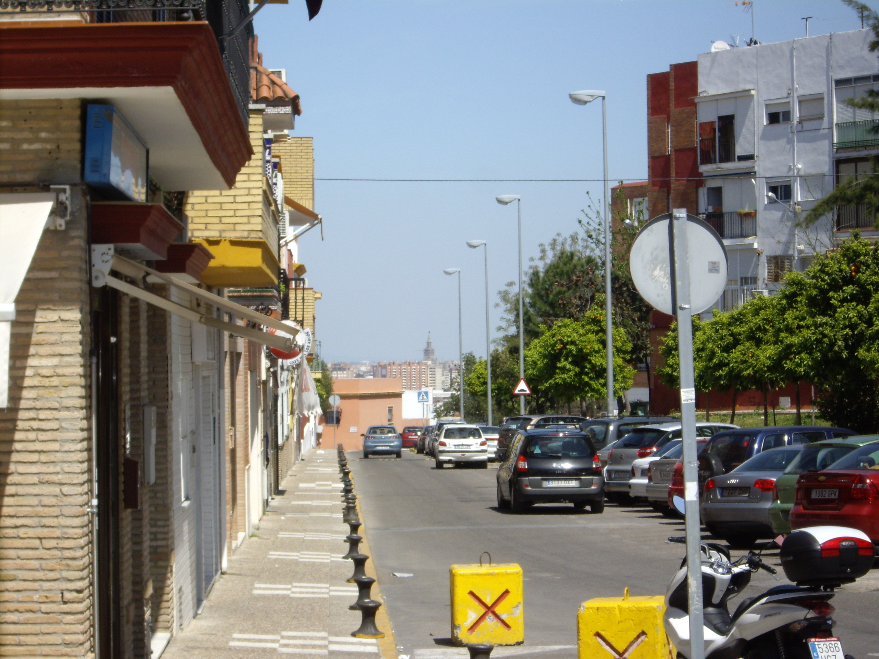 La Giralda desde el Barrio Alto de San Juan de Aznalfarache